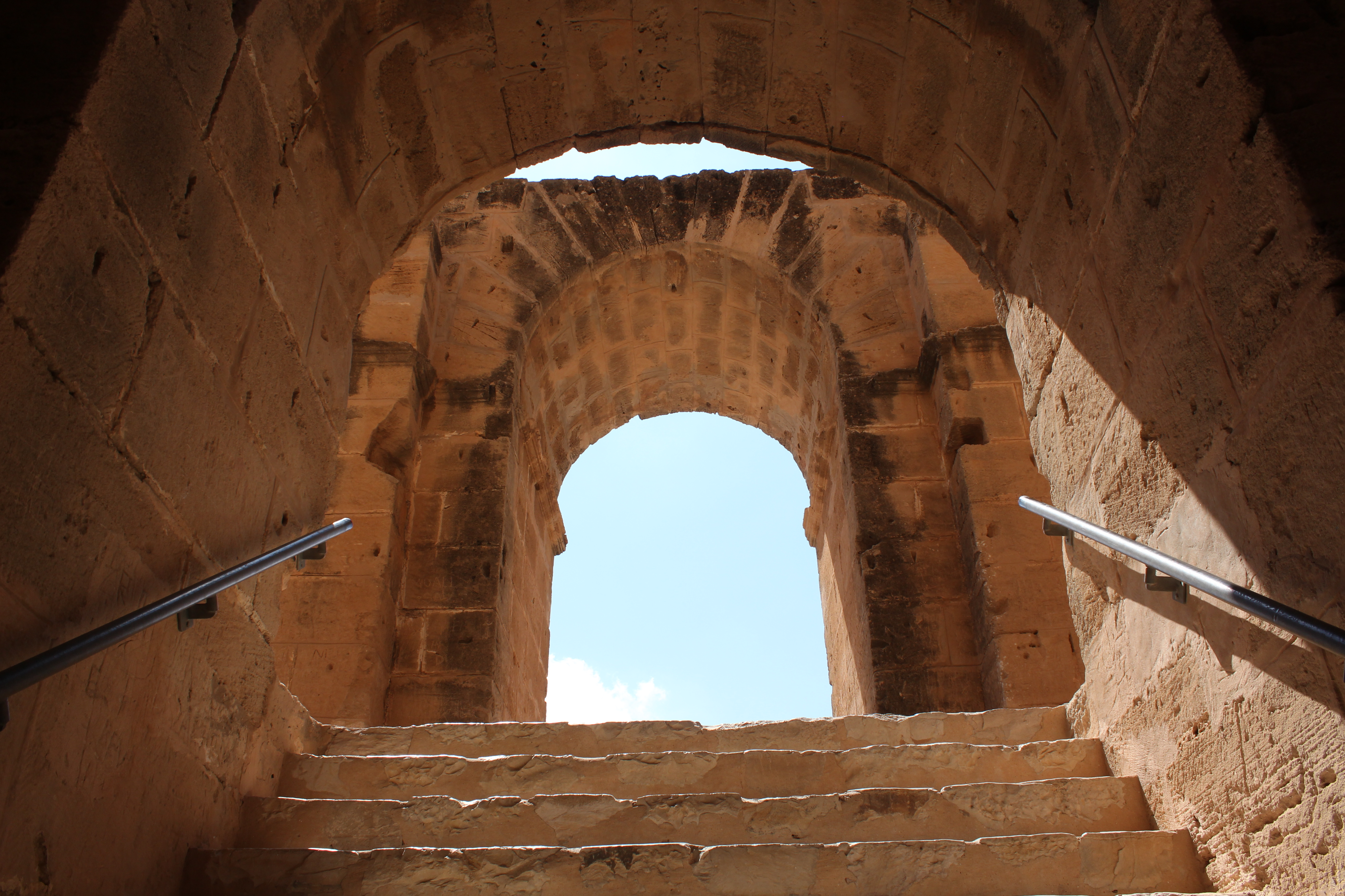 Łuk w El Jem. This image has been originally created as the illustration for łuk na dwóch kolumnach entry in crosswords dictionary. It has been released under CC-BY-3.0 license.